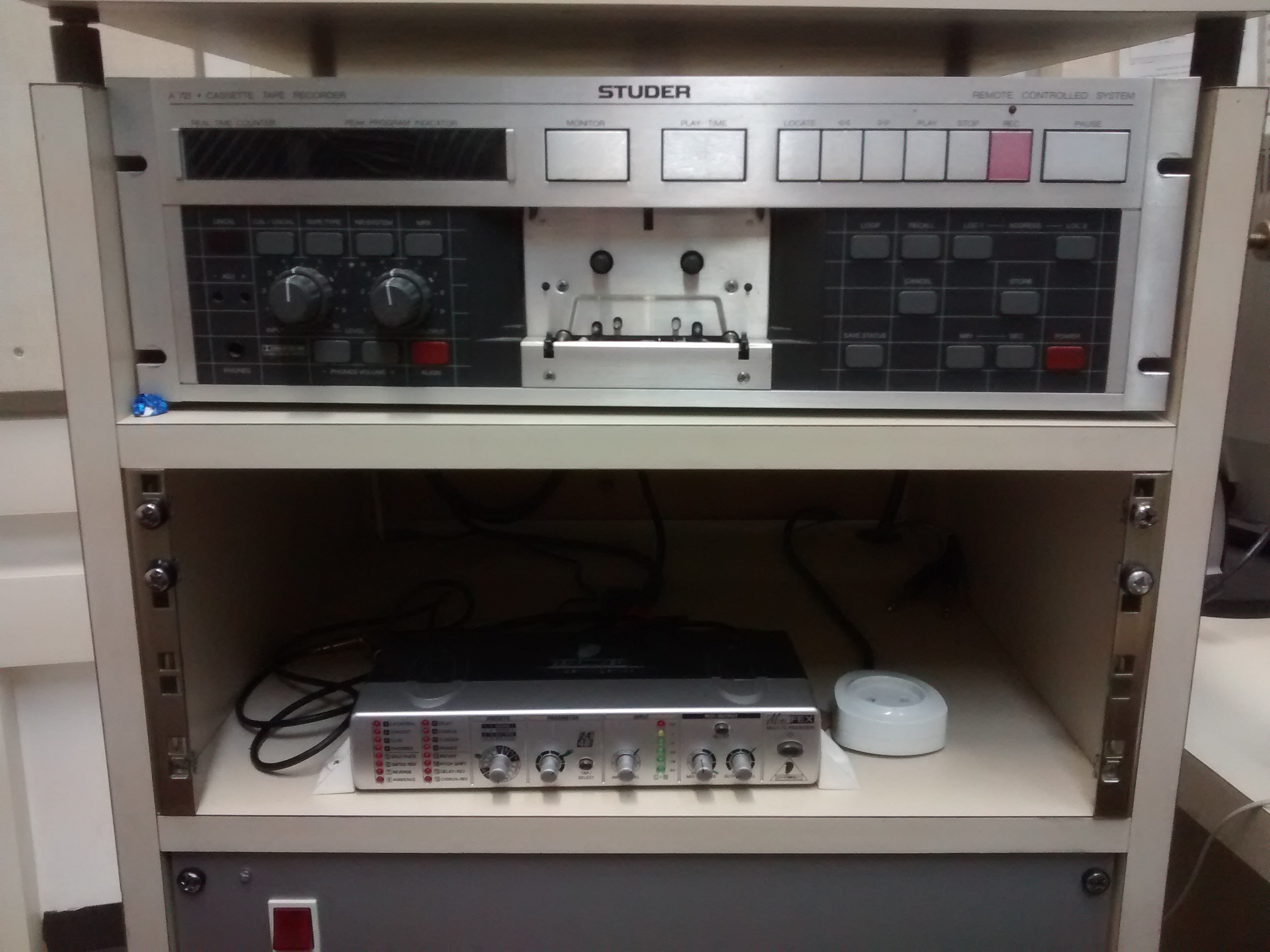 Studios and facilities of Kol Israel in Romema, Jerusalem 2016. Studer A728 cassette deck